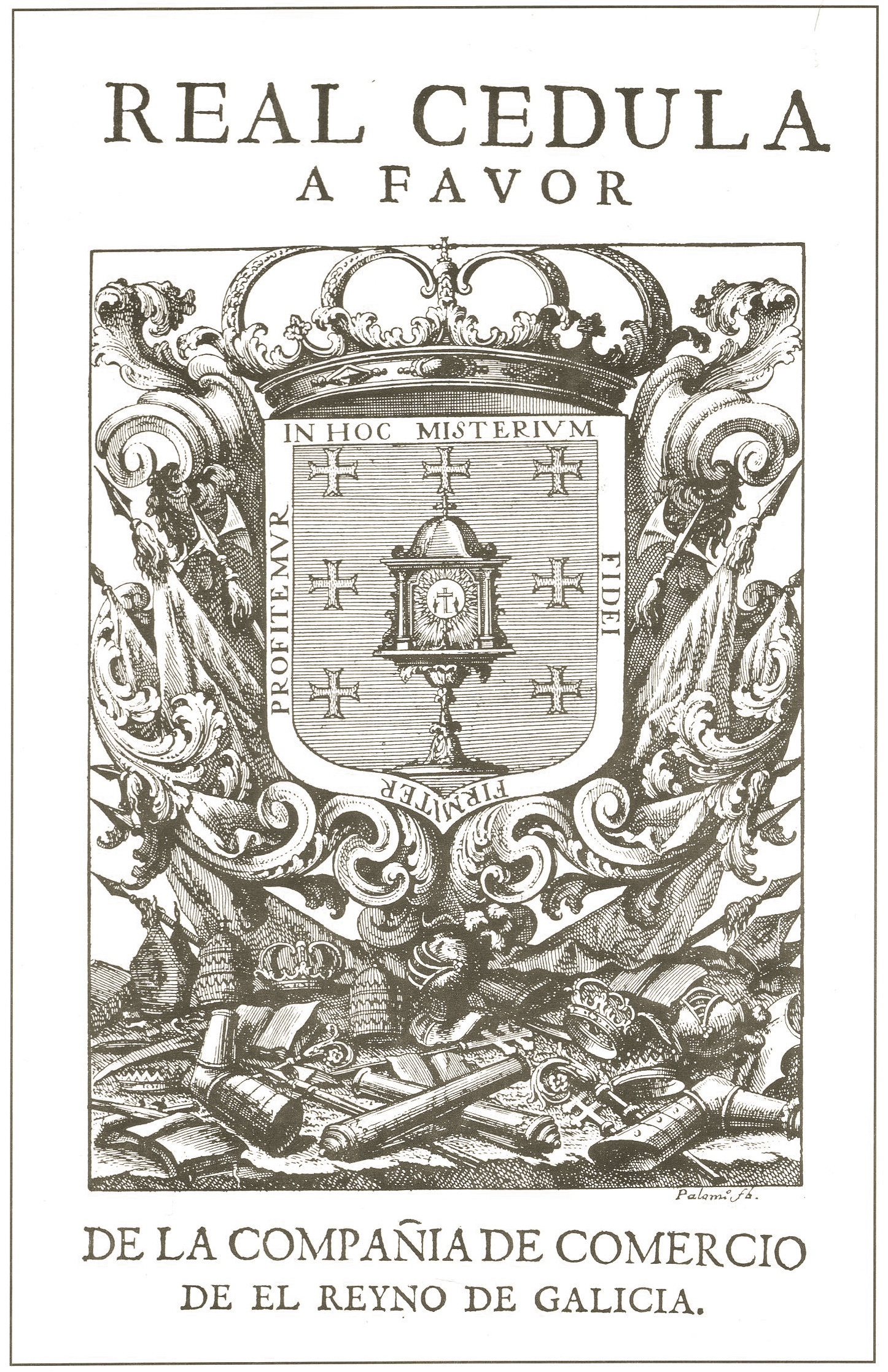 IN HOC MISTERIVM FIDEI FIRMITER PROFITEMVR. Potrait of the Cedula of comerce in favour to the Galician Royal Company.